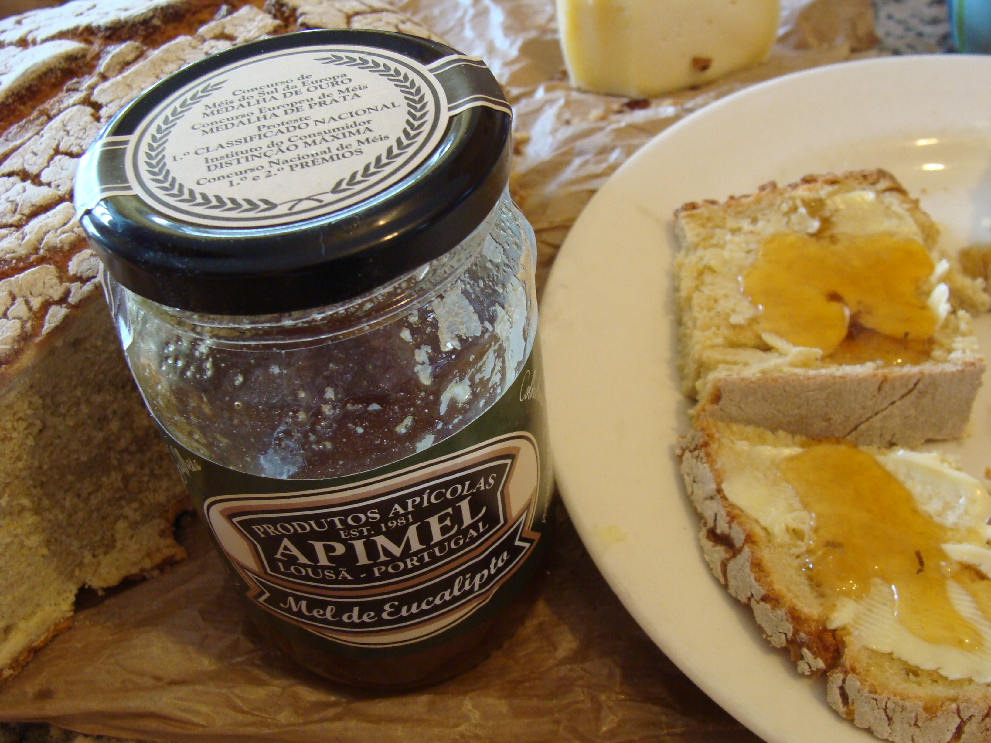 2nd best honey in the whole of Europe, apparently. Apimel: eucalyptus honey from Lousã video: Lousã, Coimbra, Região Centro, Portugal, 09/2012